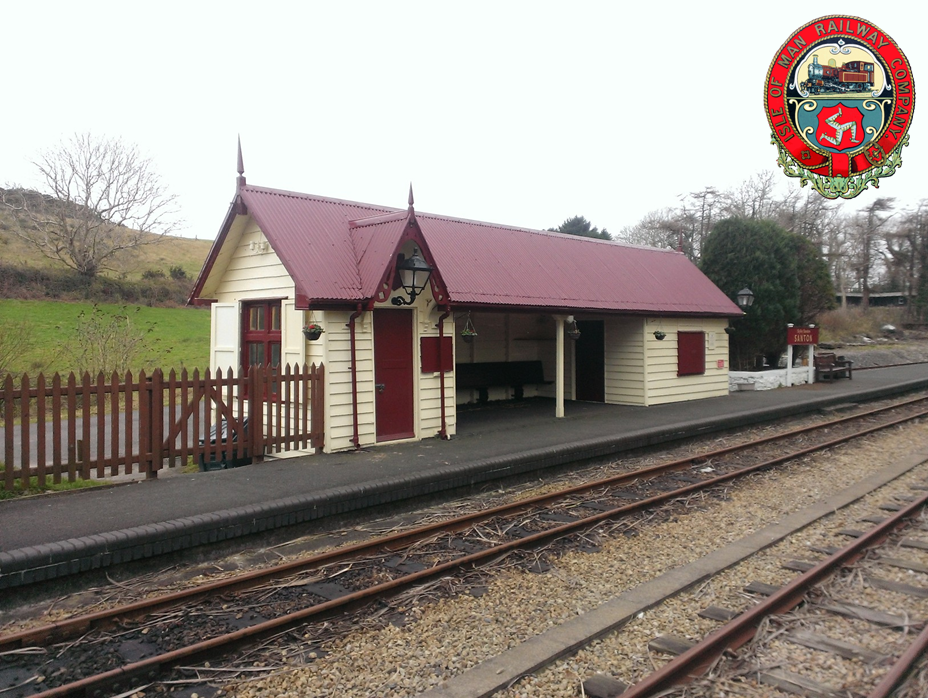 The original 1875 built timber station structure at Santon on the Isle of Man Railway